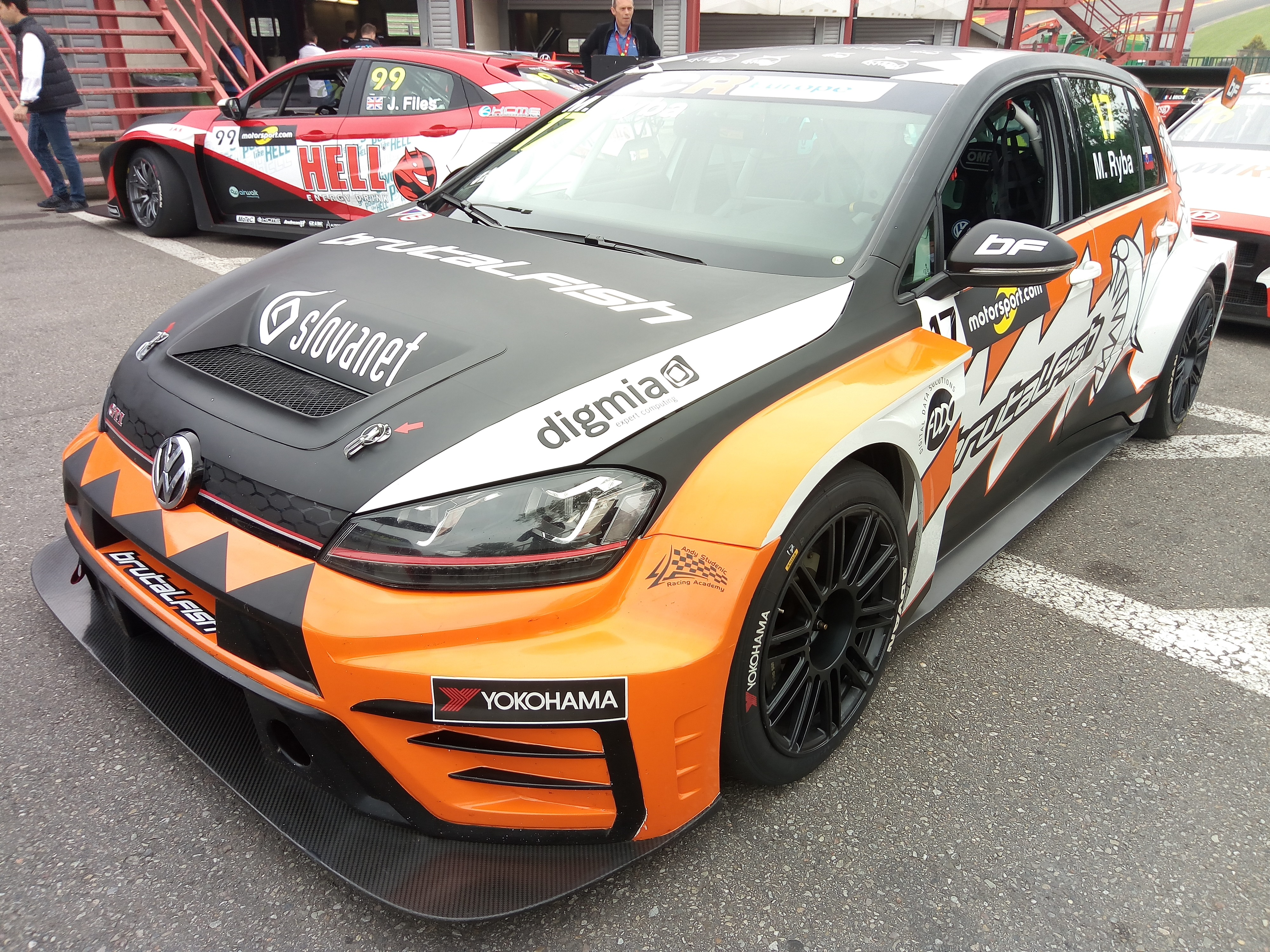 Martin Ryba (Brutal Fish Racing Team) at the 2018 TCR Europe Series round at Spa-Francorchamps.